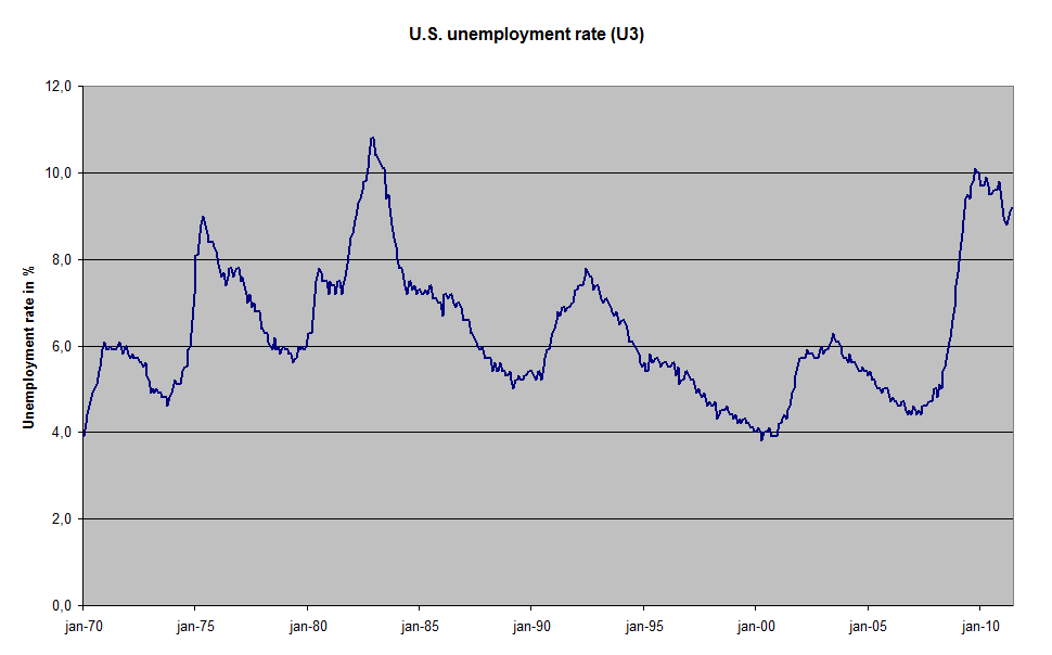 Development of unemployment in the US (U3-definition) from 1970. Source:Federal Reserve Bank of St. Louis, Economic Research, seried ID UNRATE.